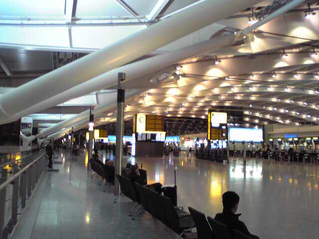 Heathrow Terminal 5